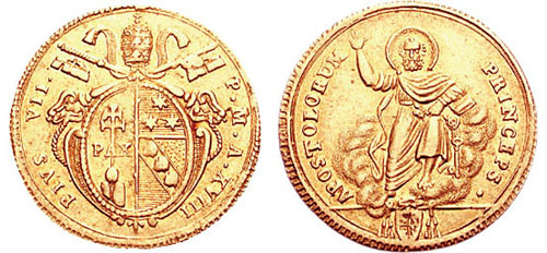 Italia, Stato Pontificio. Pio VII. 1800-1823. AV Doppia (5.45 g, 12h). zecca di Roma. Datato RY 18 (1817). STemma dei Chiaramonti con sopra le chiavi decussate e la tiara San Pietro in trono tra nuvole di fronte che tiene le chiavi; stemma Zambelli sotto. Italy, Papal States. Pius VII. 1800-1823. AV Doppia (5.45 g, 12h). Rome mint. Dated RY 18 (1817). Chiaramonti coat-of-arms topped by papal keys and tiara St. Peter enthroned facing in clouds, holding keys; Zambelli coat-of-arms below. CNI XVII 79; Muntoni IV p. 77, 3; Berman 3218; KM 121.1.